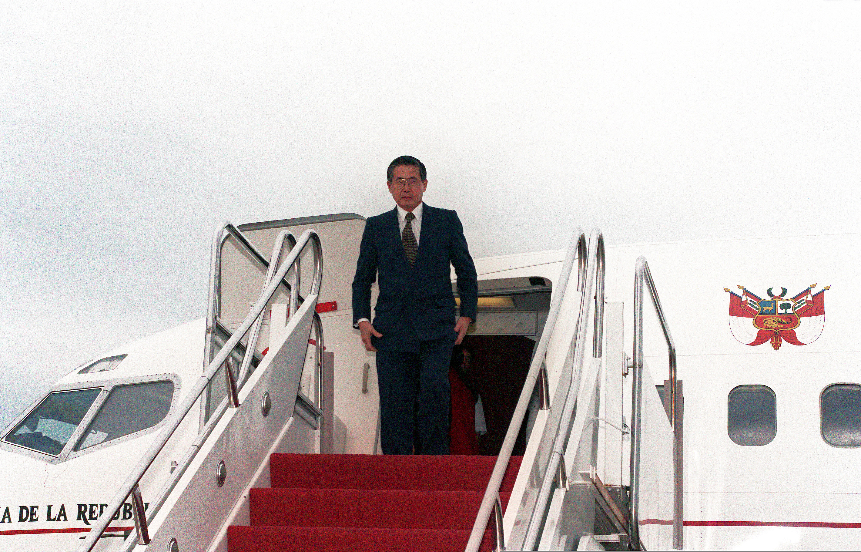 Alberto Fujimori, the President of Peru, emerges from his aircraft moments after arriving in Prince George's County, Maryland, in October 1998.